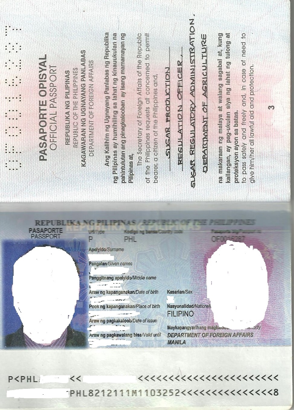 Sample data inside the Philippine Official (Red) passport